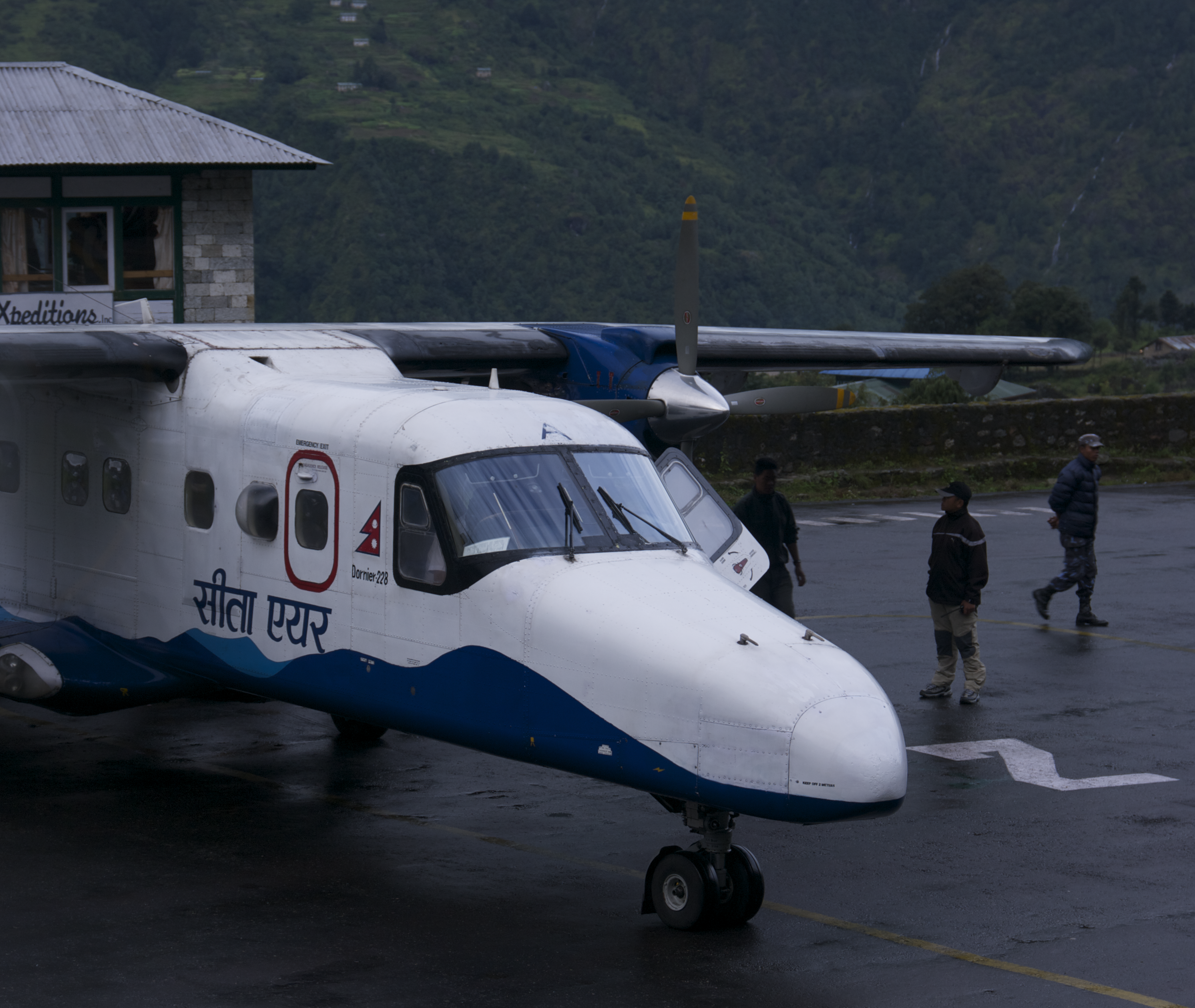 A Sita Air Dornier 228 (9N-AHA) at Lukla Airport.